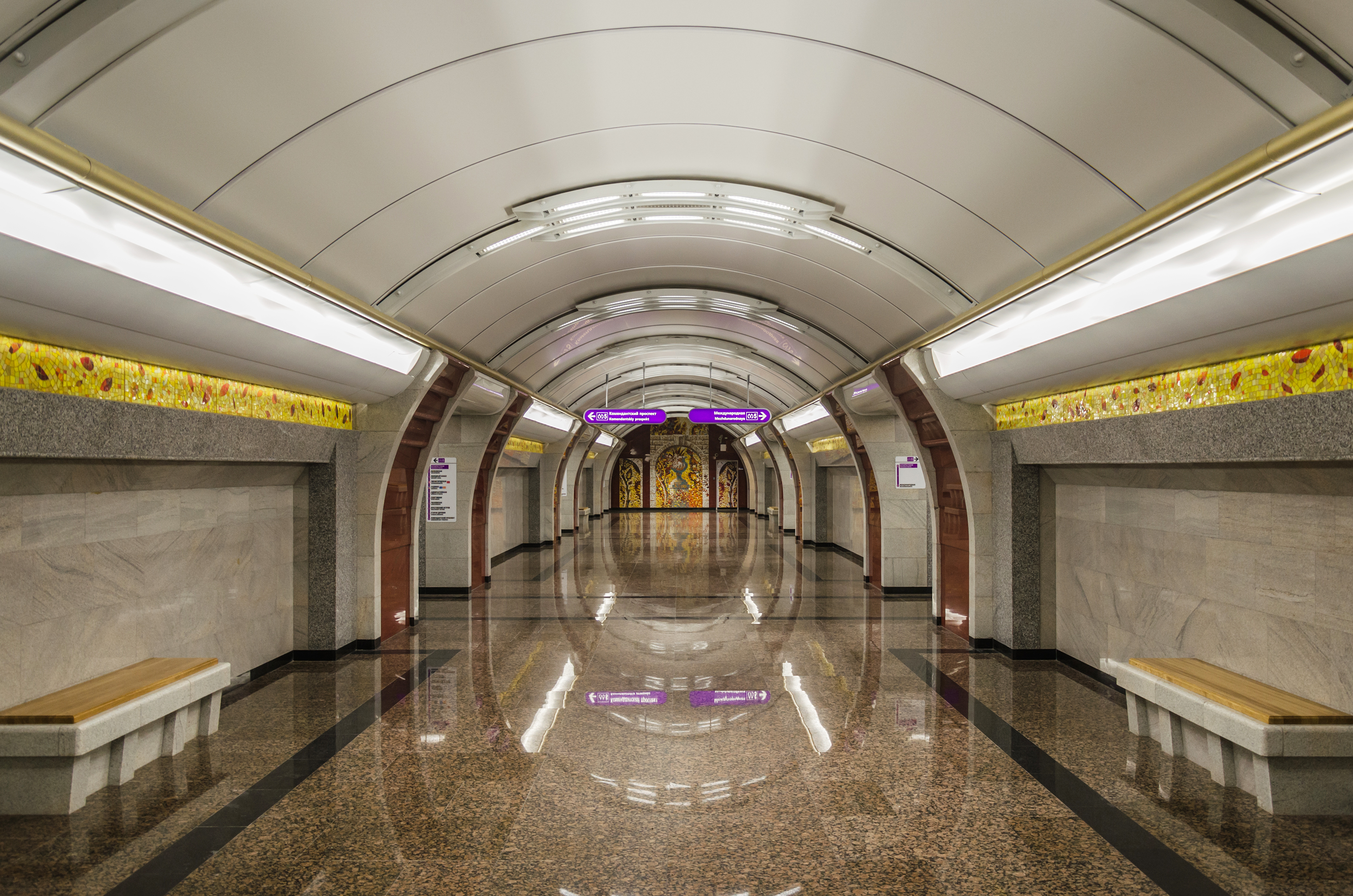 Bukharestskaya subway station in Saint Petersburg